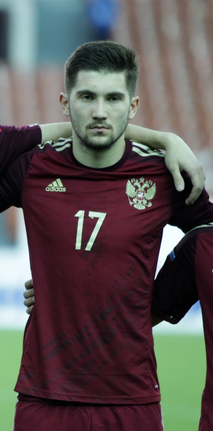 Aleksei Sutormin playing for Russia U-21 against Estonia U-21 on 21 January 2016.